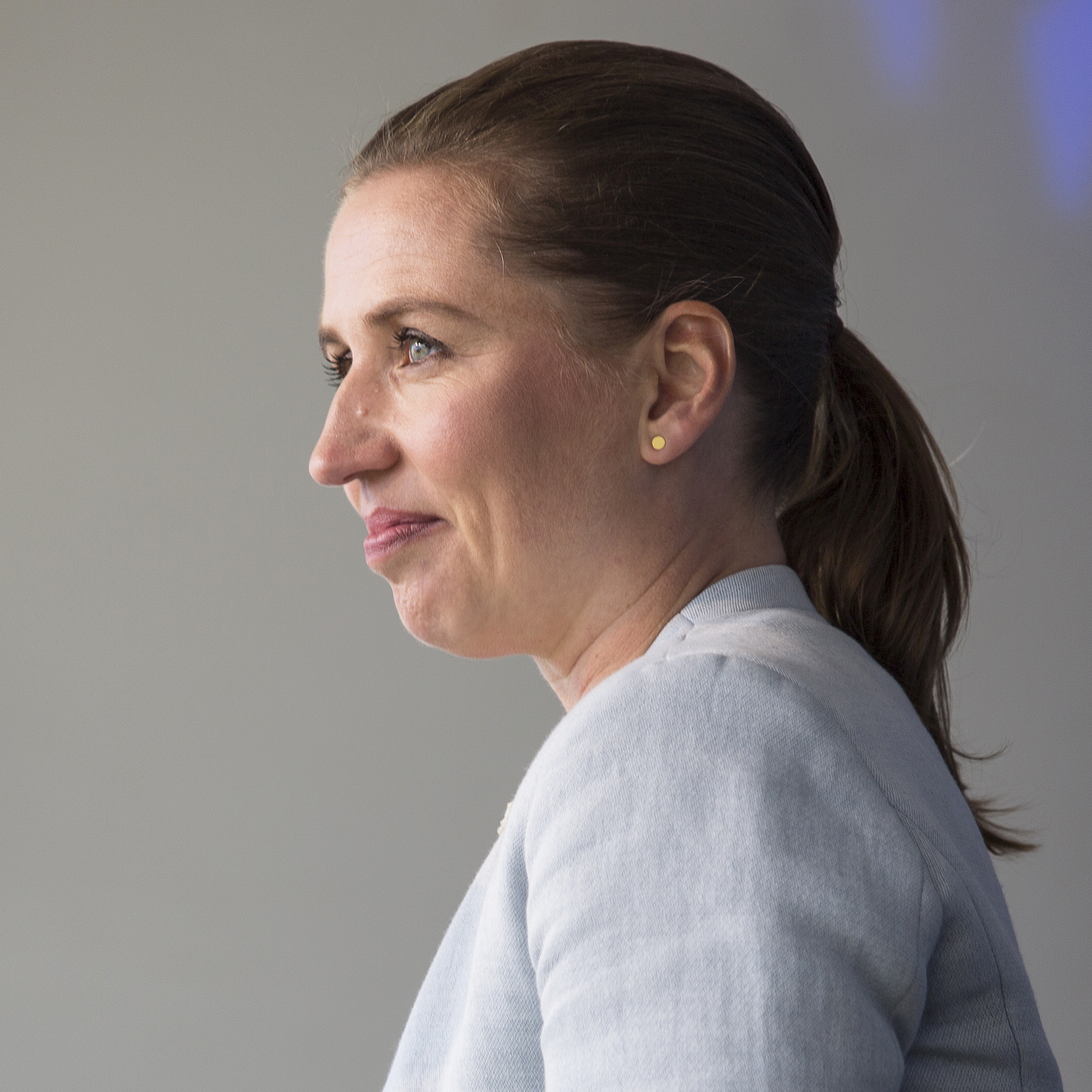 Danish Social Democratic Party leader Mette Frederiksen speaks at the People's Meeting in Allinge on Bornholm